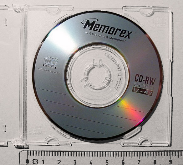 a small compact disk / Memorex CD-RW